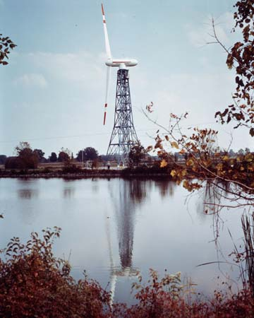 NASA/DOE MOD-0 experimental wind turbine at the Plum Brook station of NASA Glenn Research Center (then the NASA Lewis Research Center), near Sandusky.